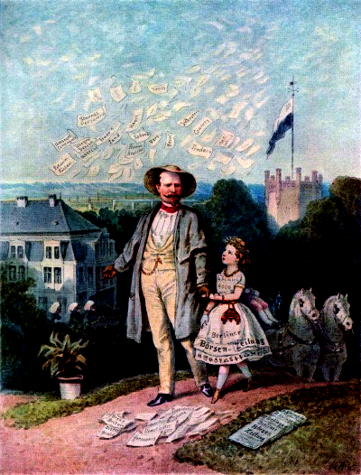 Painting of Hermann Killisch-Horn (1821–1886) in 1865 by Theodor Hosemann (1807–1875). The location of this painting is in Pankow, today part of Germany's capital Berlin. Hermann Killisch-Horn is shown as 45 year old man walking inside the park of his estate. His manor is shown on the left, on the right his look-out which reminds of a castle's tower. On top of it waves the Prussian flag. In the sky surrounding his head are shares/stock of companies while on the grass are issues of the newspaper he founded and owned, the Berliner Börsen-Zeitung (1855–1945). The dress of the young girl also shows the title of this newspaper as she is symbolising the newspaper. In other drawings of the founder the newspaper was symbolised by a toddler wrapped in the newspaper.